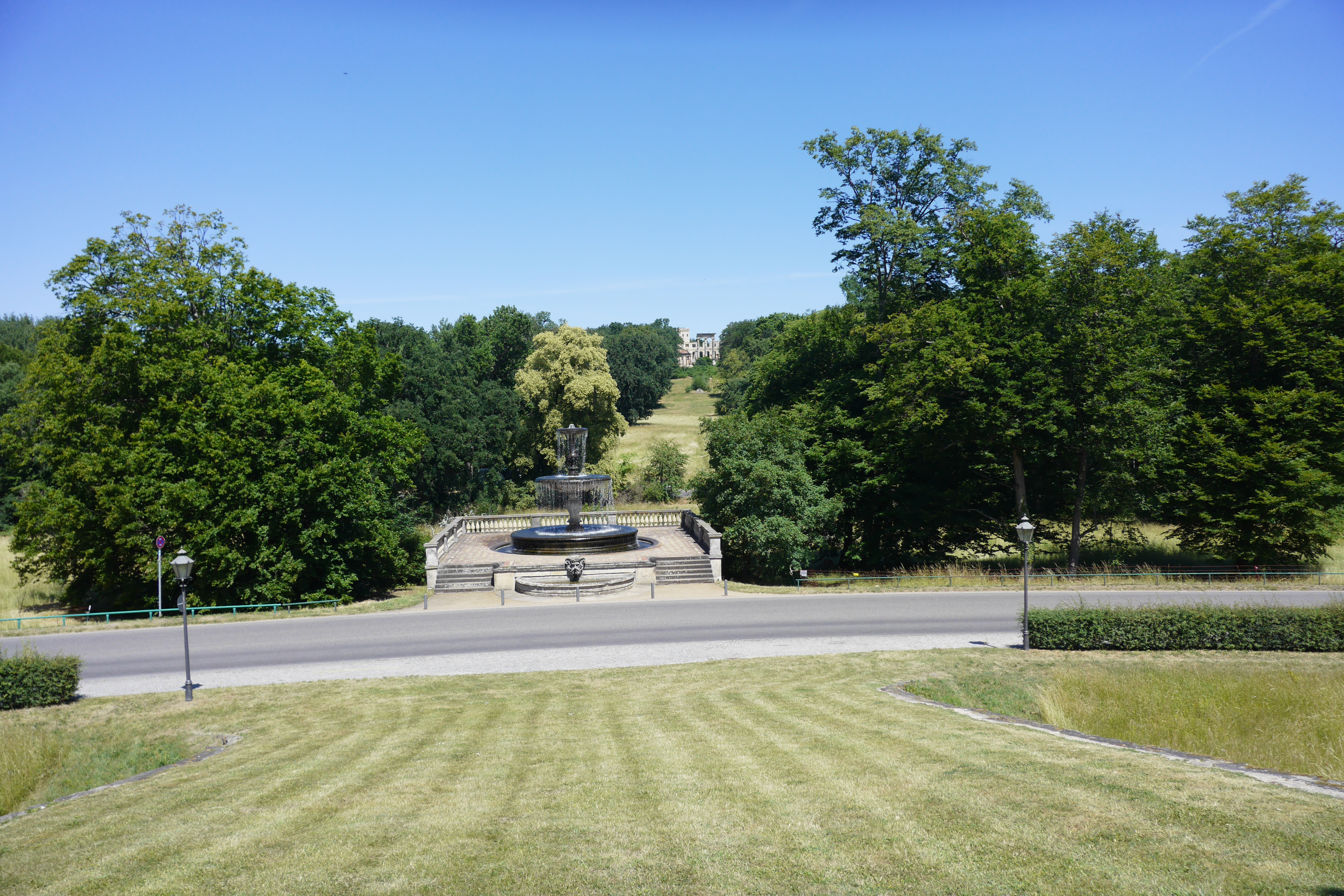 View from Ehrenhof Sanssouci to Ruinenberg Potsdam